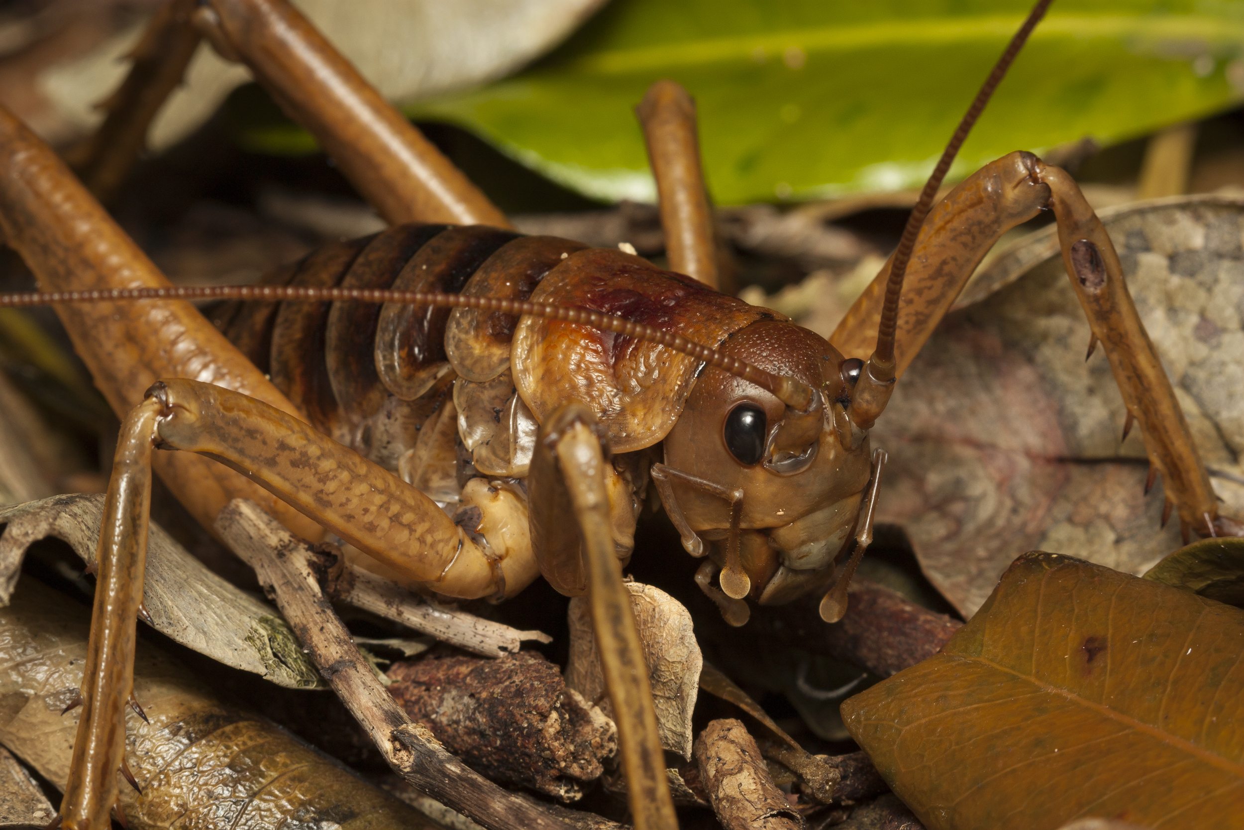 Poor Knights giant wētā (Deinacrida fallai) on the ground